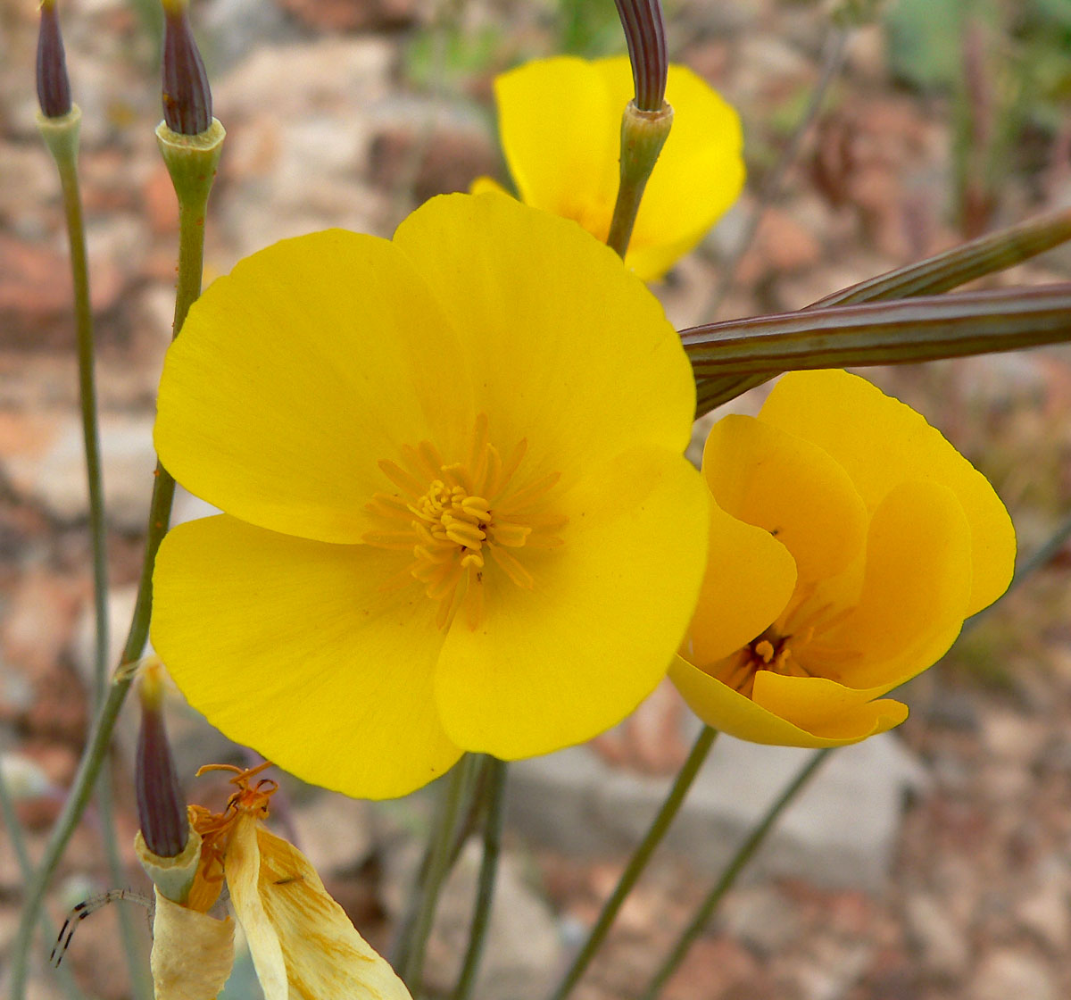 Eschscholzia glyptosperma — desert golden poppy, flower closeup. In the Mojave Desert west of Las Vegas, Nevada (just off the end of Tropicana Avenue).